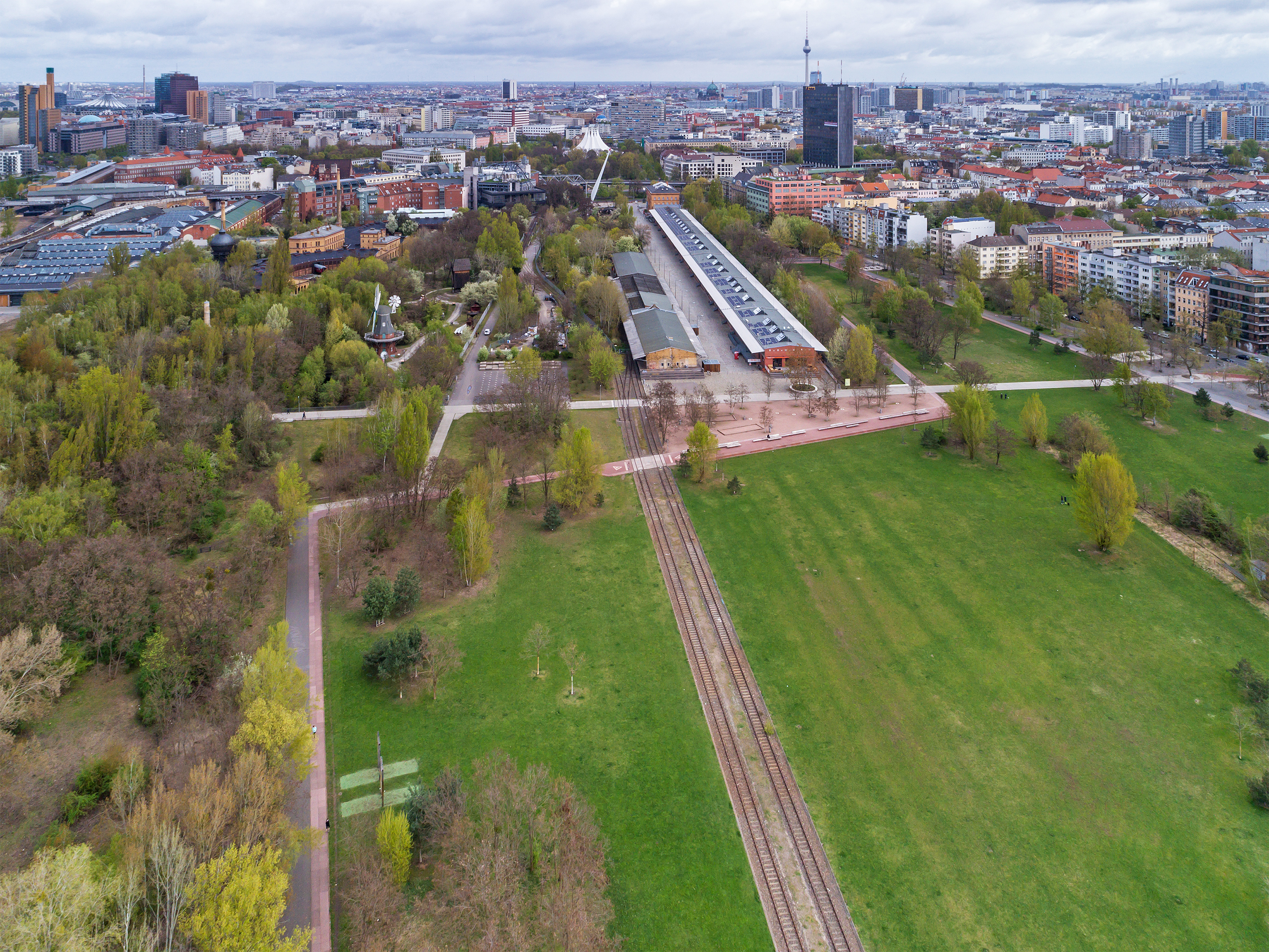 Aerial view of Gleisdreieck Park in Berlin (Germany)